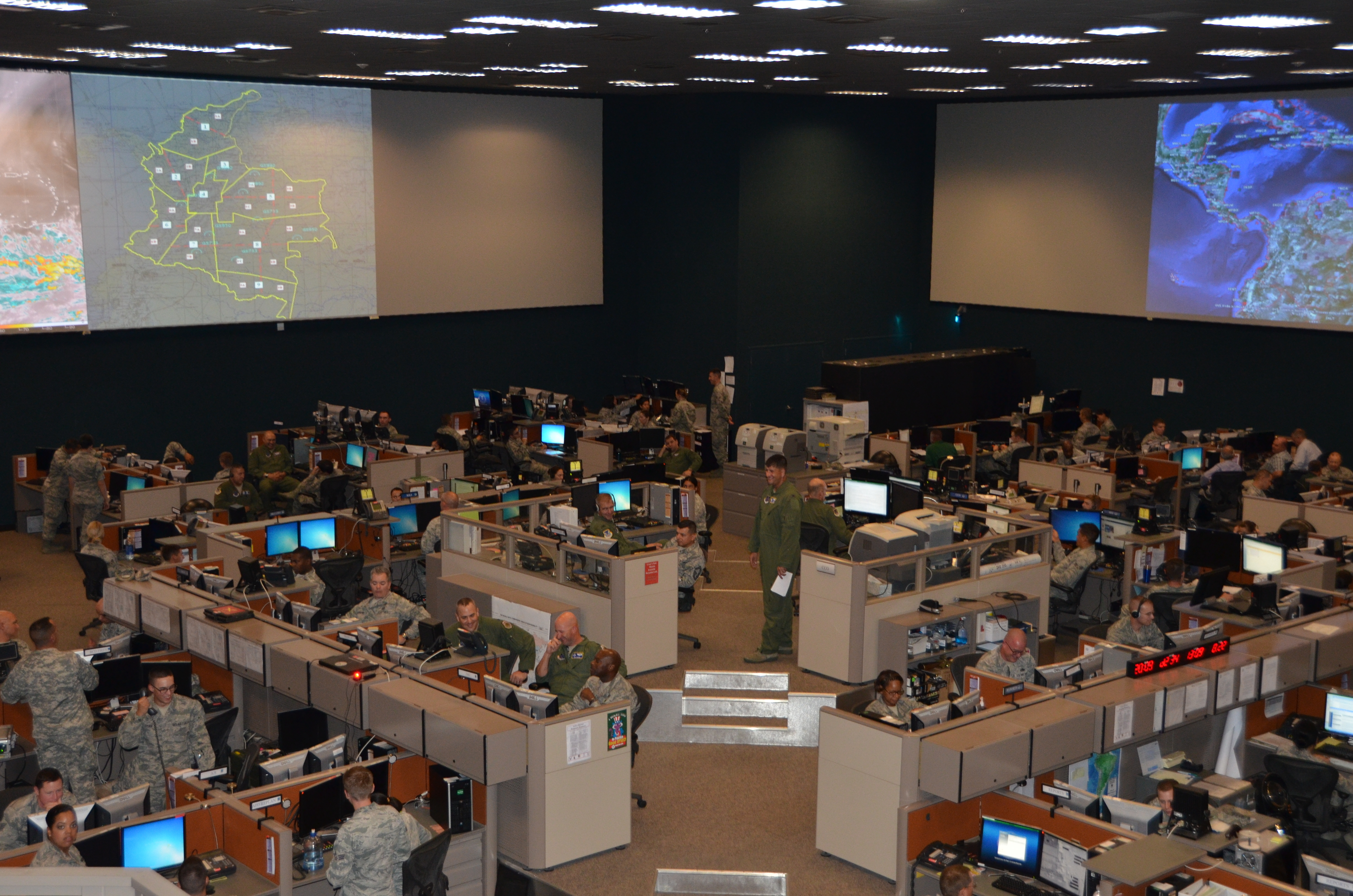 A rare look inside the Gen. James H. Doolittle Combined Air and Space Operations Center facility (612th Air and Space Operations Center) at Davis-Monthan Air Force Base, Ariz. The facility is currently being using to support the U.S. Southern Command-sponsored PANAMAX 2014 exercise series that focuses on ensuring the defense of the Panama Canal. Forces from 17 nations will take part in simulated training scenarios in the waters around the canal and other locations.